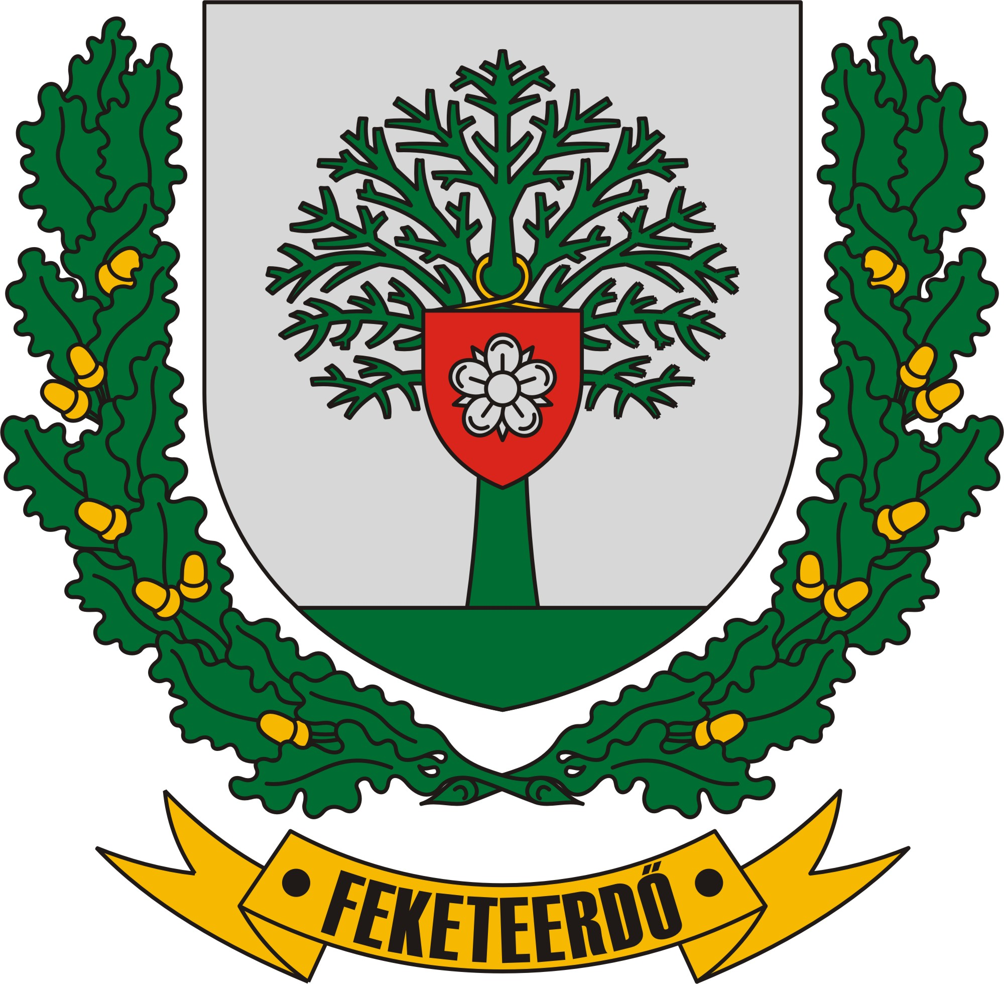 Coat of arms of Feketeerdő, Hungary